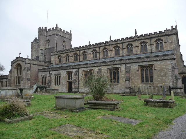 Minster church of St Denys, Warminster, Wiltshire, seen from the north